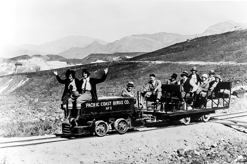 Baby Gauge Railroad of the Pacific Coast Borax Company. MGM Starlets (Alma Kelly and Winnefred Jacobs, with Betty Gilles in the car) promoting tour of Death Valley in February 1929. (U.P. photo)